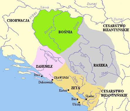 Serbian lands c. 1050